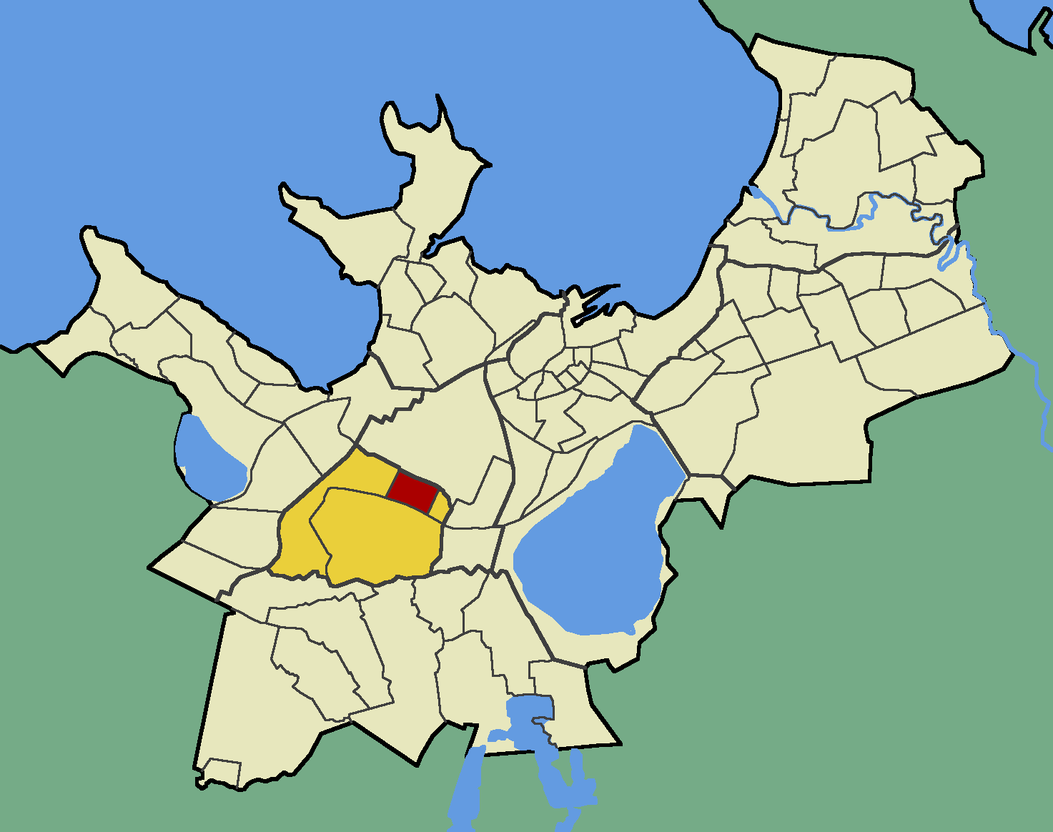 Map of Tallinn (Estonia) with borders of the quarters, Mustamäe district and Sääse quarter emphasised